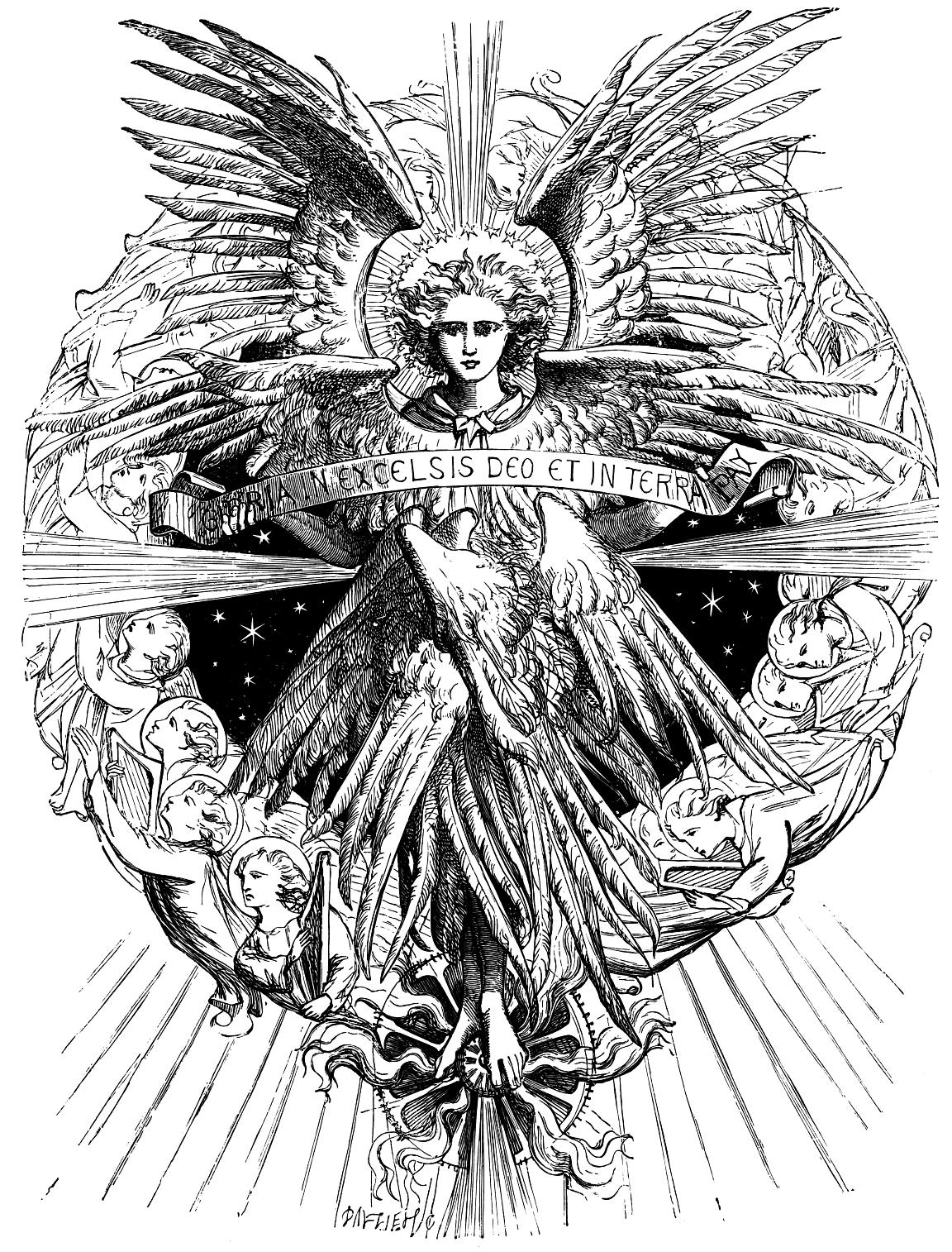 The Song of Bethlehem